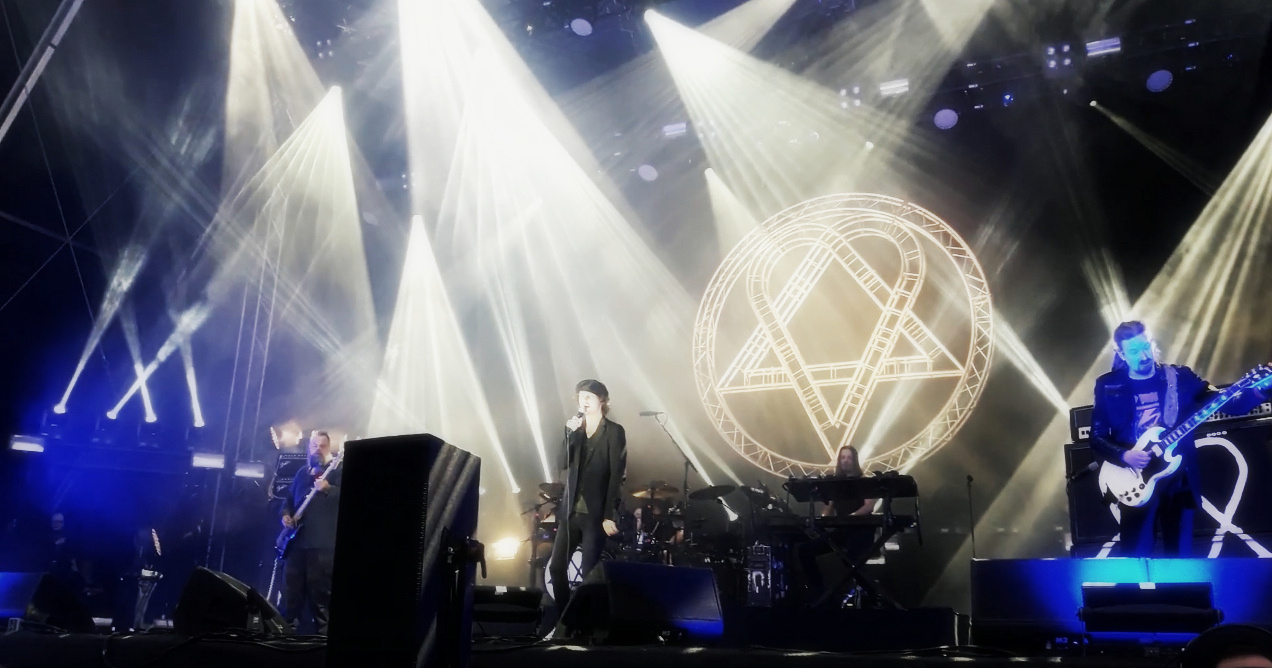 HIM performing at the Tuska Open Air Metal Festival on 1 July 2017